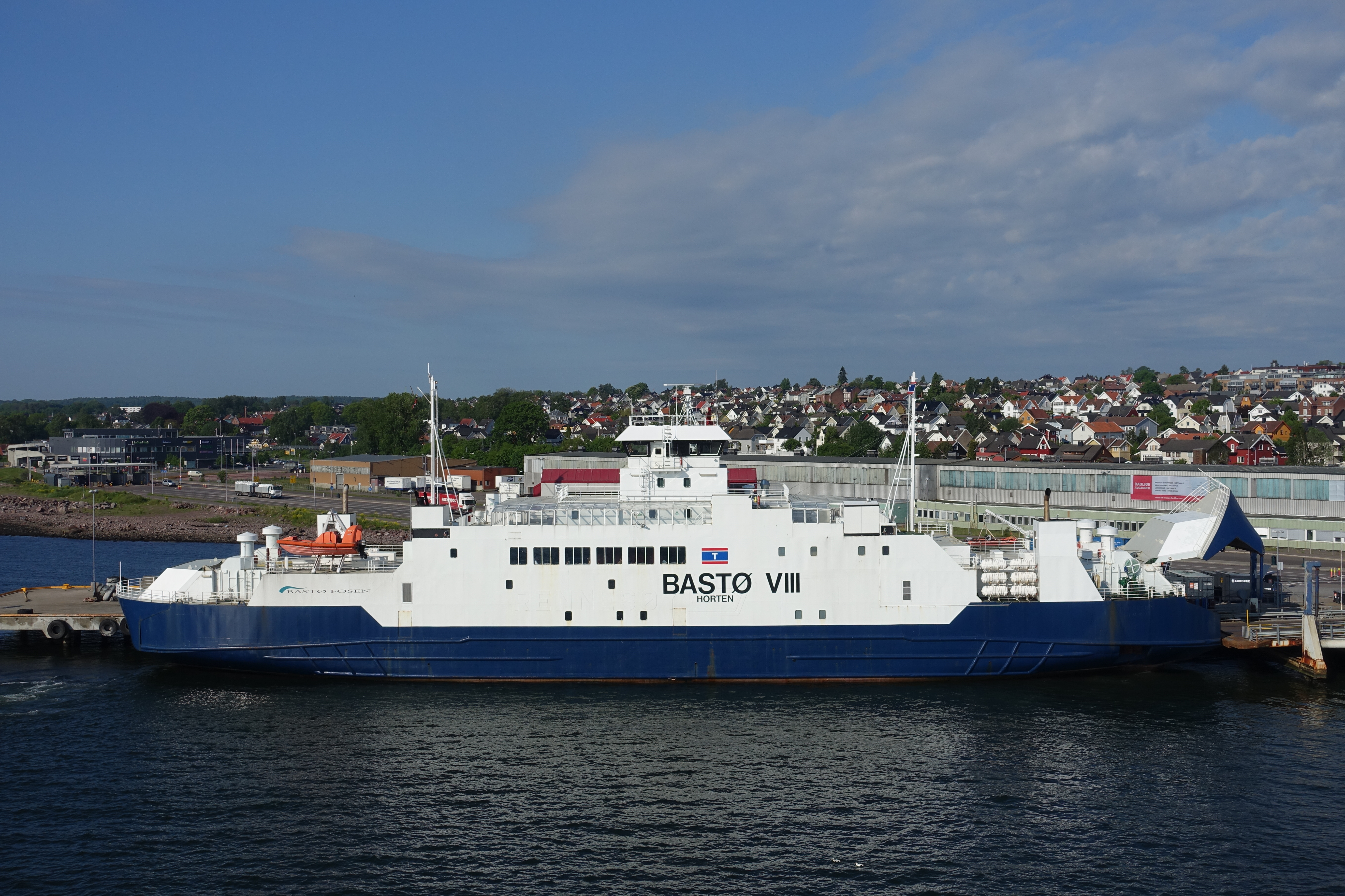 The ferry Bastø VIII (former Bastø V) leaving Horten, bound for Moss